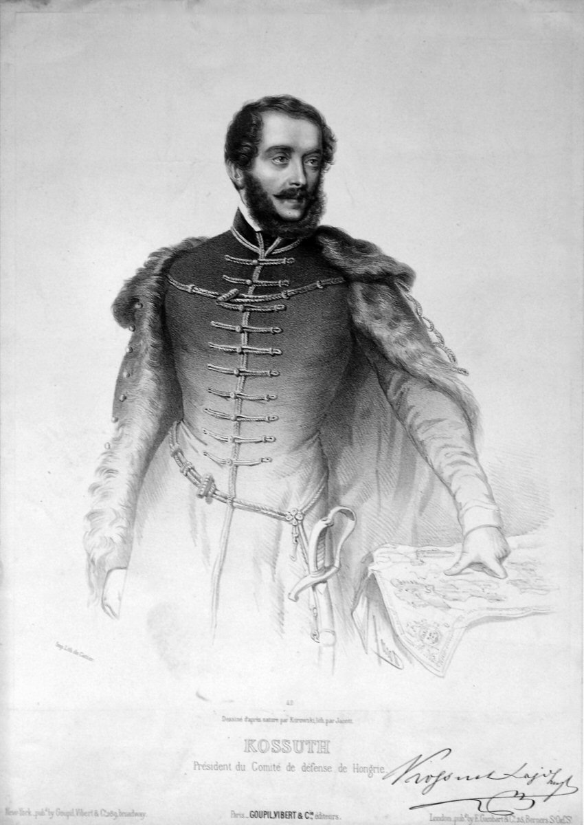 Lajos Kossuth, Lithographie von Jacott